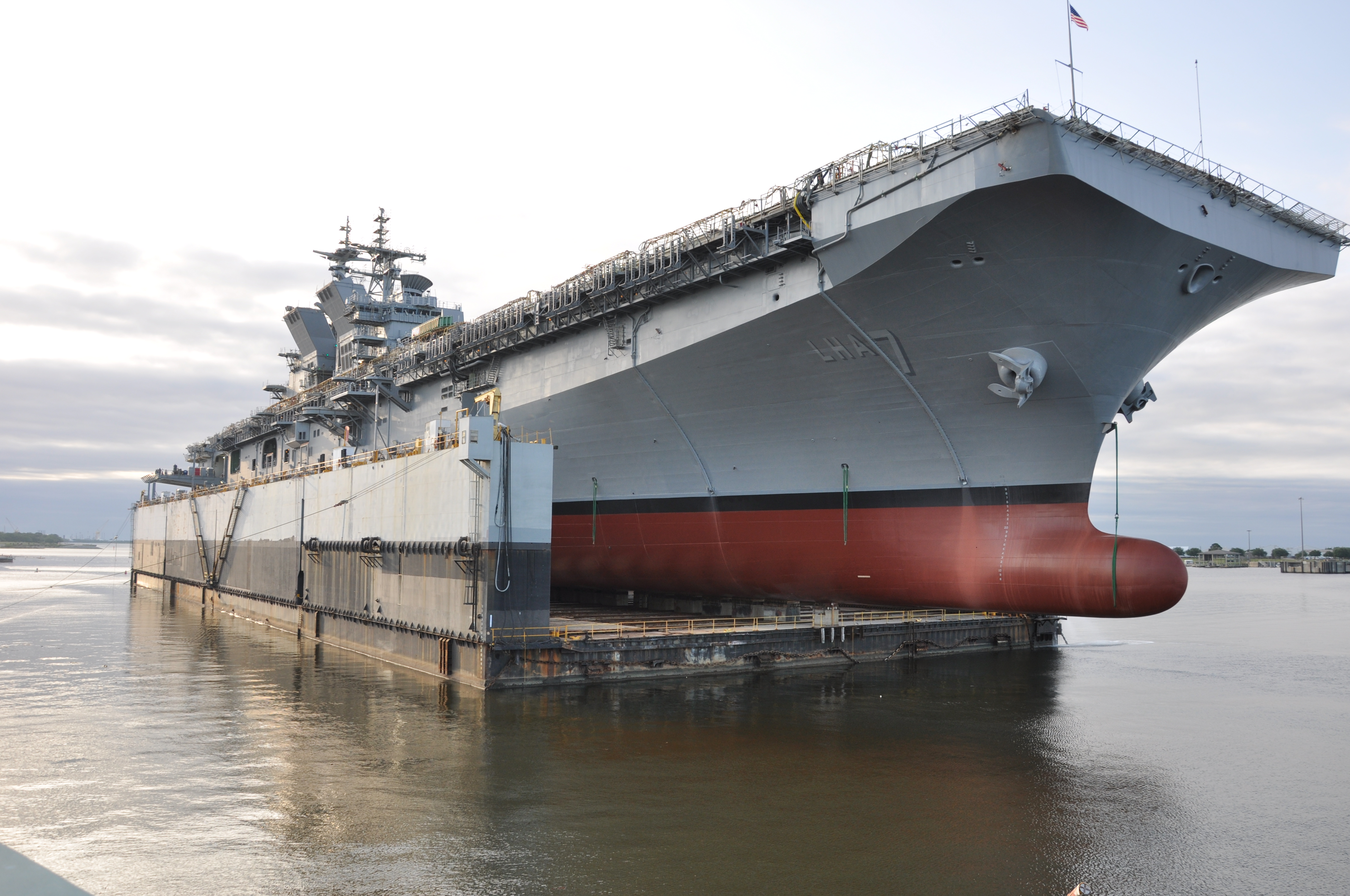 The U.S. Navy amphibious assault ship USS Tripoli (LHA-7) is launched at Huntington Ingalls Industries in Pascagoula, Mississippi (USA) on 1 May 2017. Tripoli was successfully launched after the dry-dock was flooded to allow it to float off for the first time. Tripoli incorporates an enlarged hangar deck, enhanced maintenance facilities, increased fuel capacity and additional storerooms to provide the U.S. Navy with a platform optimized for aviation capabilities.